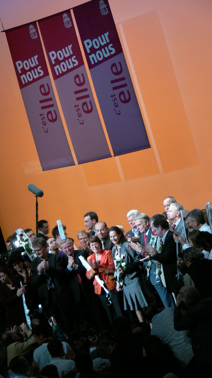 Socialist candidate Ségolène Royal on the eve of the party's presidential primary (16 November 2006).